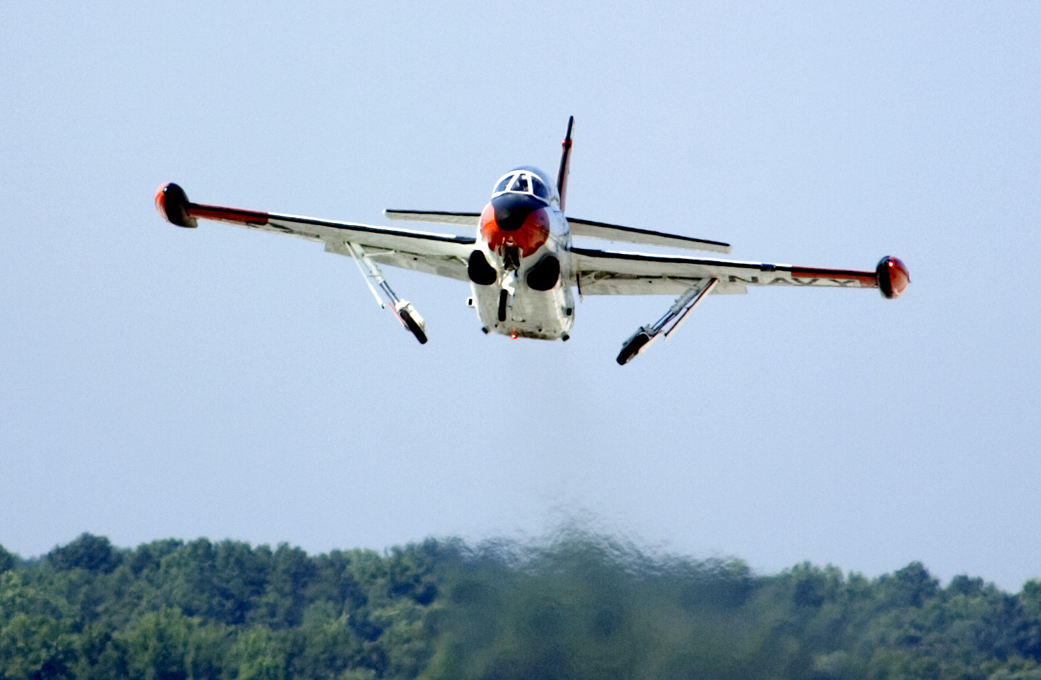 Patuxent River, Md. (Aug. 3, 2005) - A T-2C Buckeye, assigned to the U.S. Naval Test Pilot School, folds-up its landing gear as it takes off for a training flight from Naval Air Station Patuxent River, Md. The United States Naval Test Pilot School (USNTPS) provides instruction to experienced pilots, flight officers, and engineers in the processes and techniques of aircraft and systems test and evaluation. The school investigates and develops new flight test techniques, publishes manuals for use of the aviation test community for standardization of flight test techniques and project reporting, and conducts special projects. USNTPS operates approximately 50 aircraft of 13 types. U.S. Navy photo by Photographer’s Mate 2nd Class Daniel J. McLain (RELEASED)